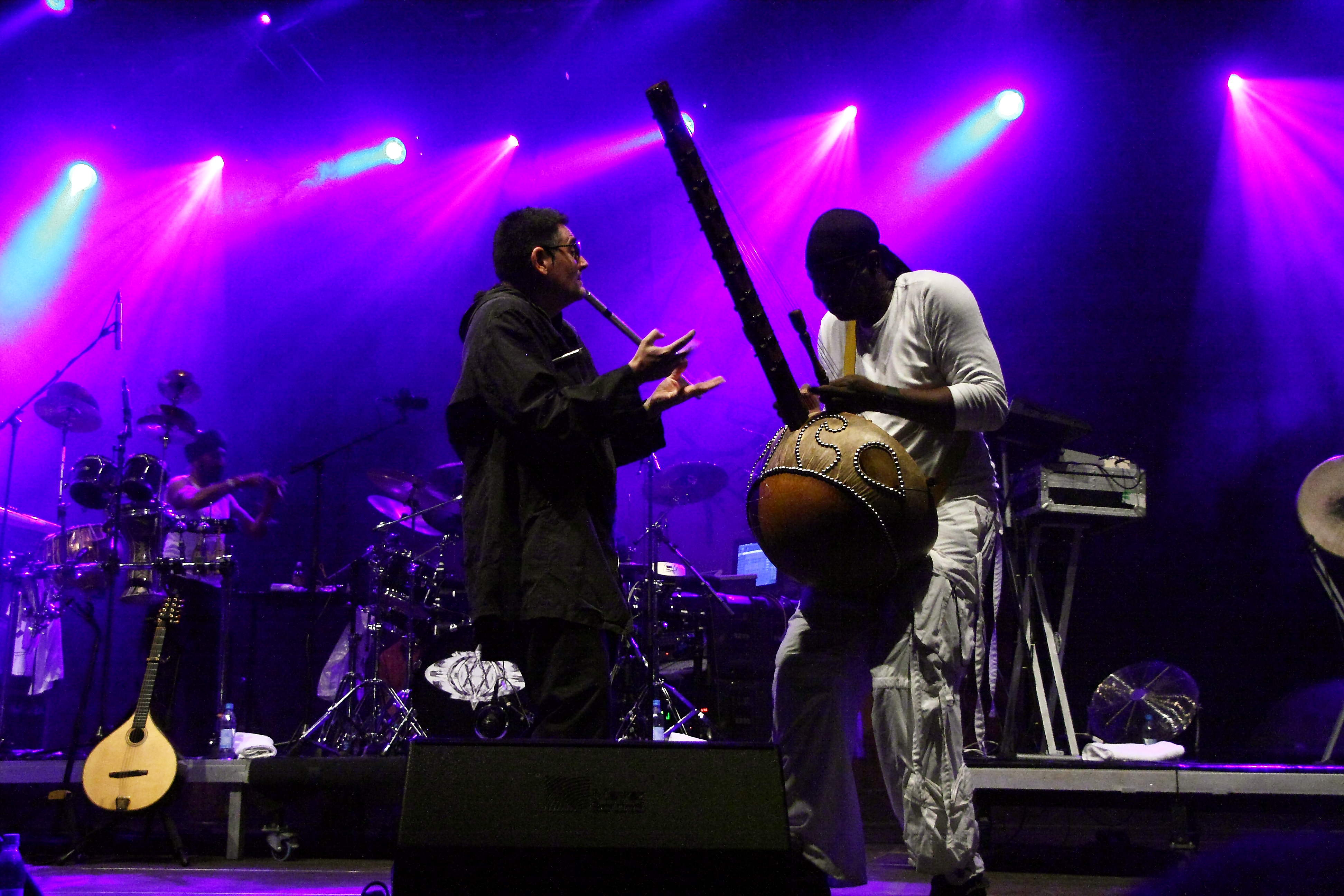 James McNally (tin whistle) and N´Faly Kouyate (kora) with Afro Celt Soundsystem at TFF.Rudolstadt 2010